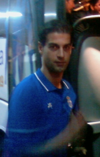 Gerard López, Spanish football player. He played for F.C. Barcelona, Valencia C.F., Deportivo Alavés, A.S. Monaco, and other teams. Played six times with Spanish national team.